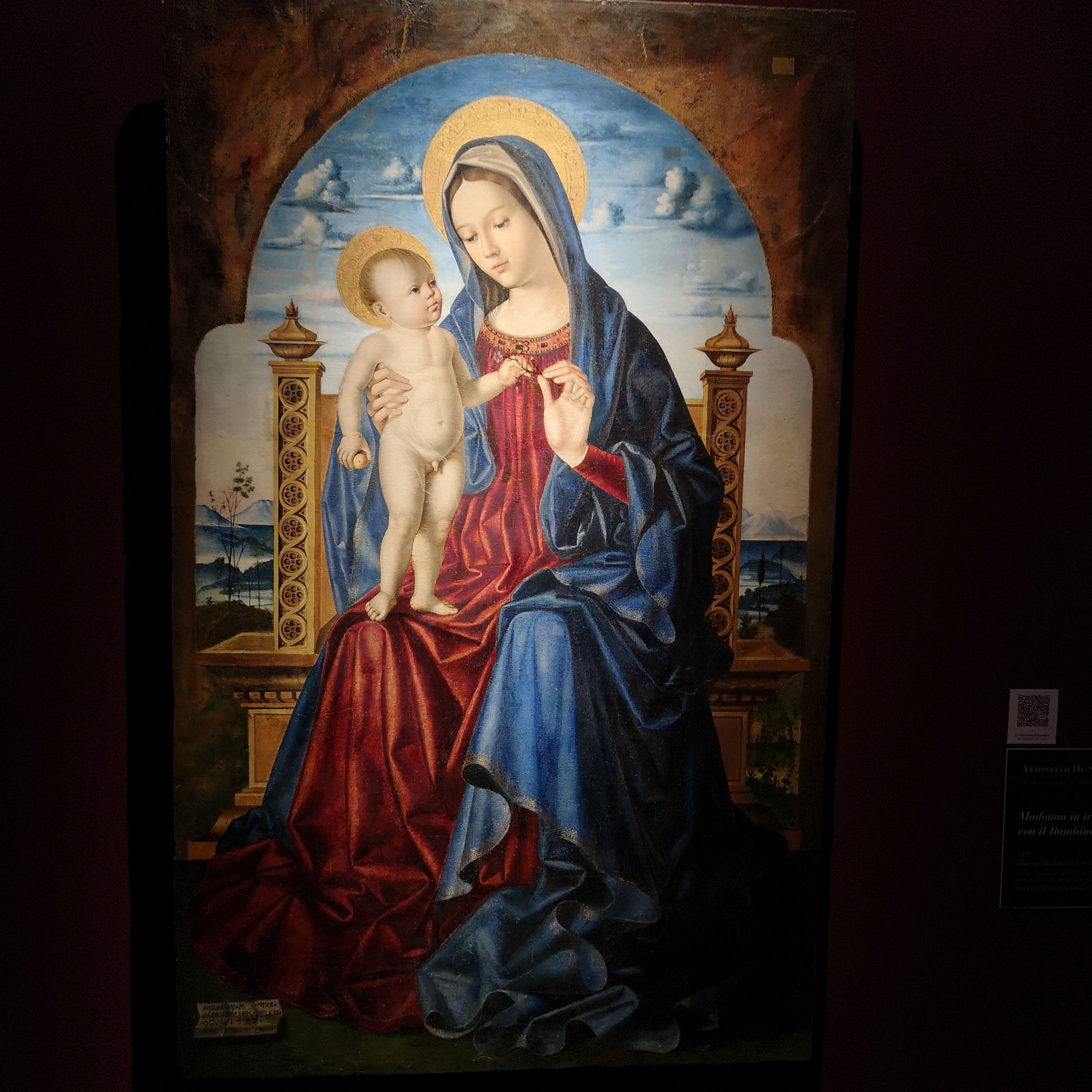 Madonna on the Throne with the Child. Oil on canvas, 125,5 × 76,5 cm.